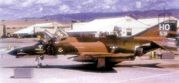 F-4E of the 49th TFW, Holloman Air Force Base New Mexico.